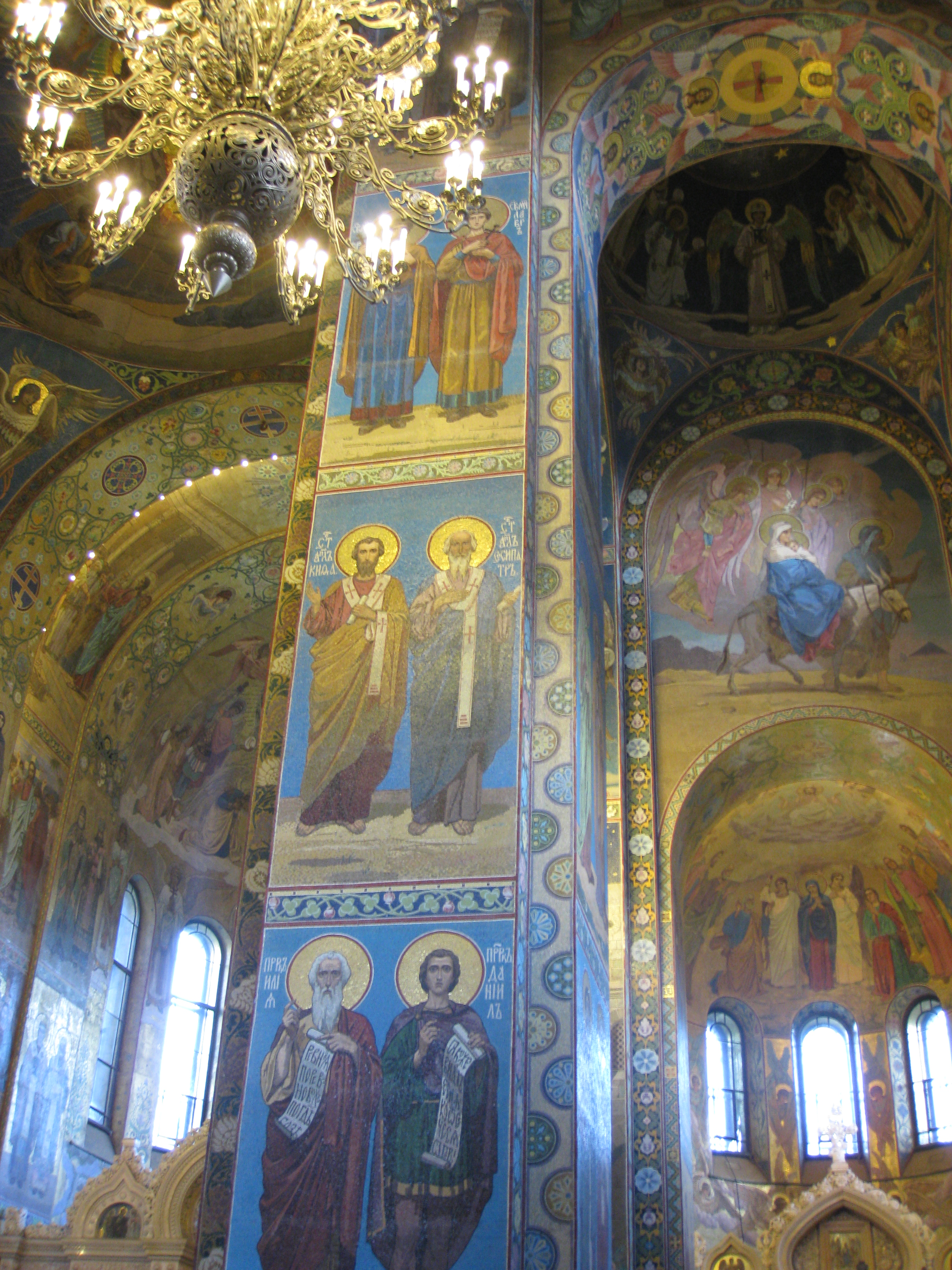 Church of the Saviour on the Blood כנסיית הגואל שעל הדם